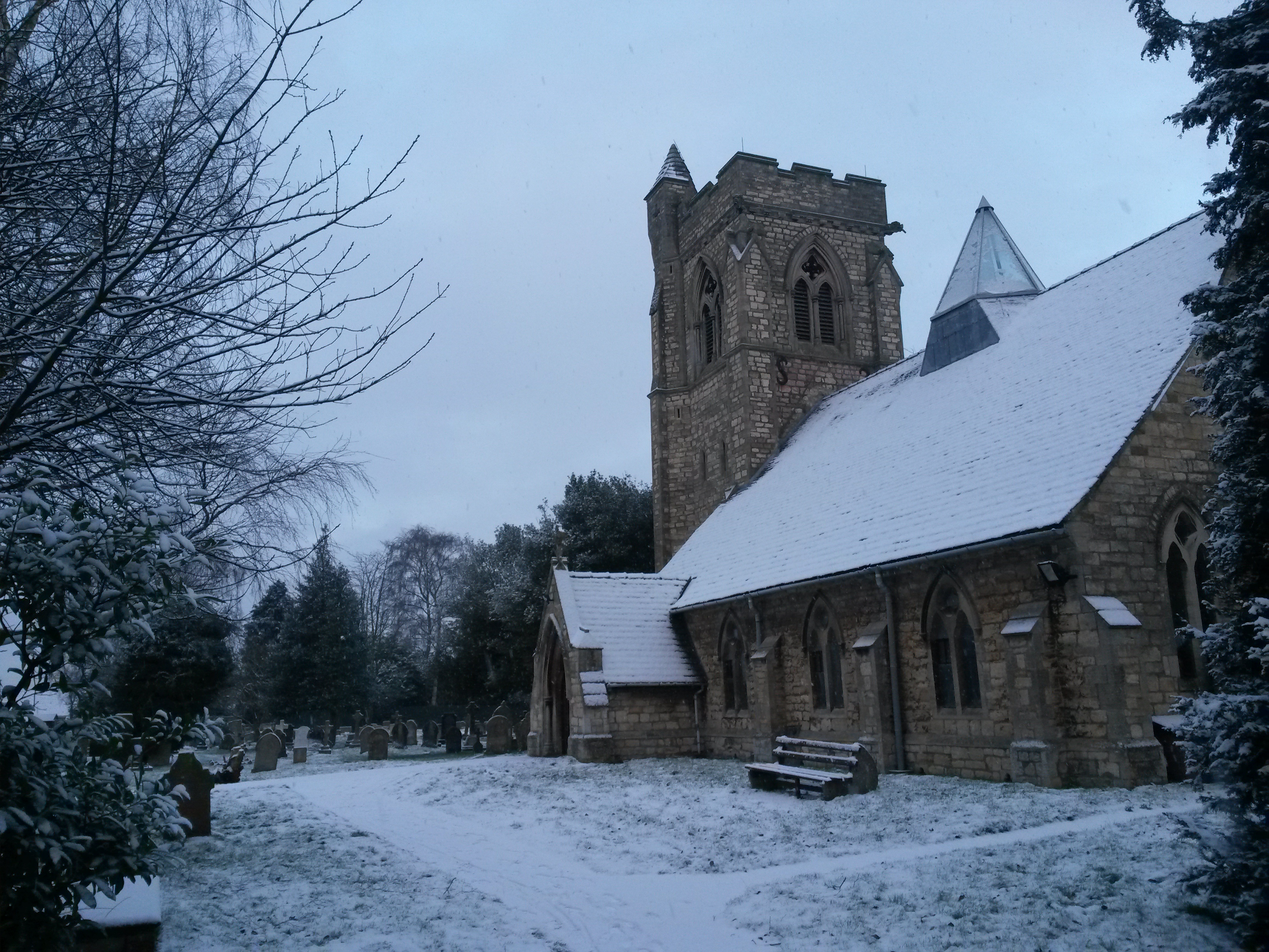 St Lawrence's Church, Skellingthorpe, in the snow. There has been a place of worship on the site of the current church since at least the early 1200s.